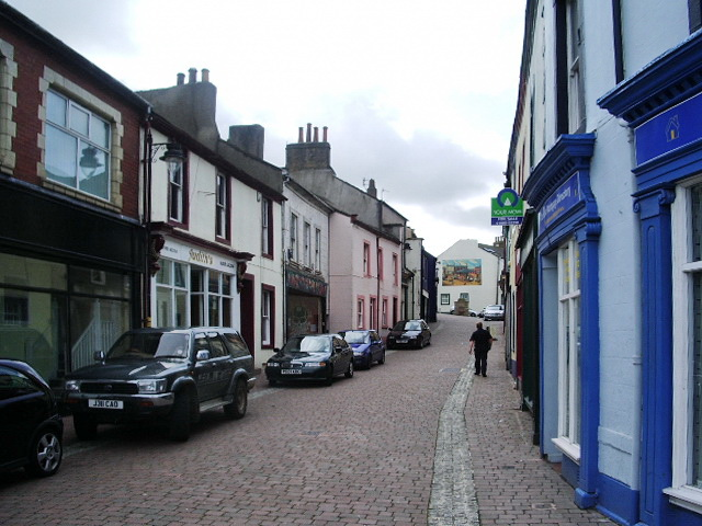 Wilson Street, Workington